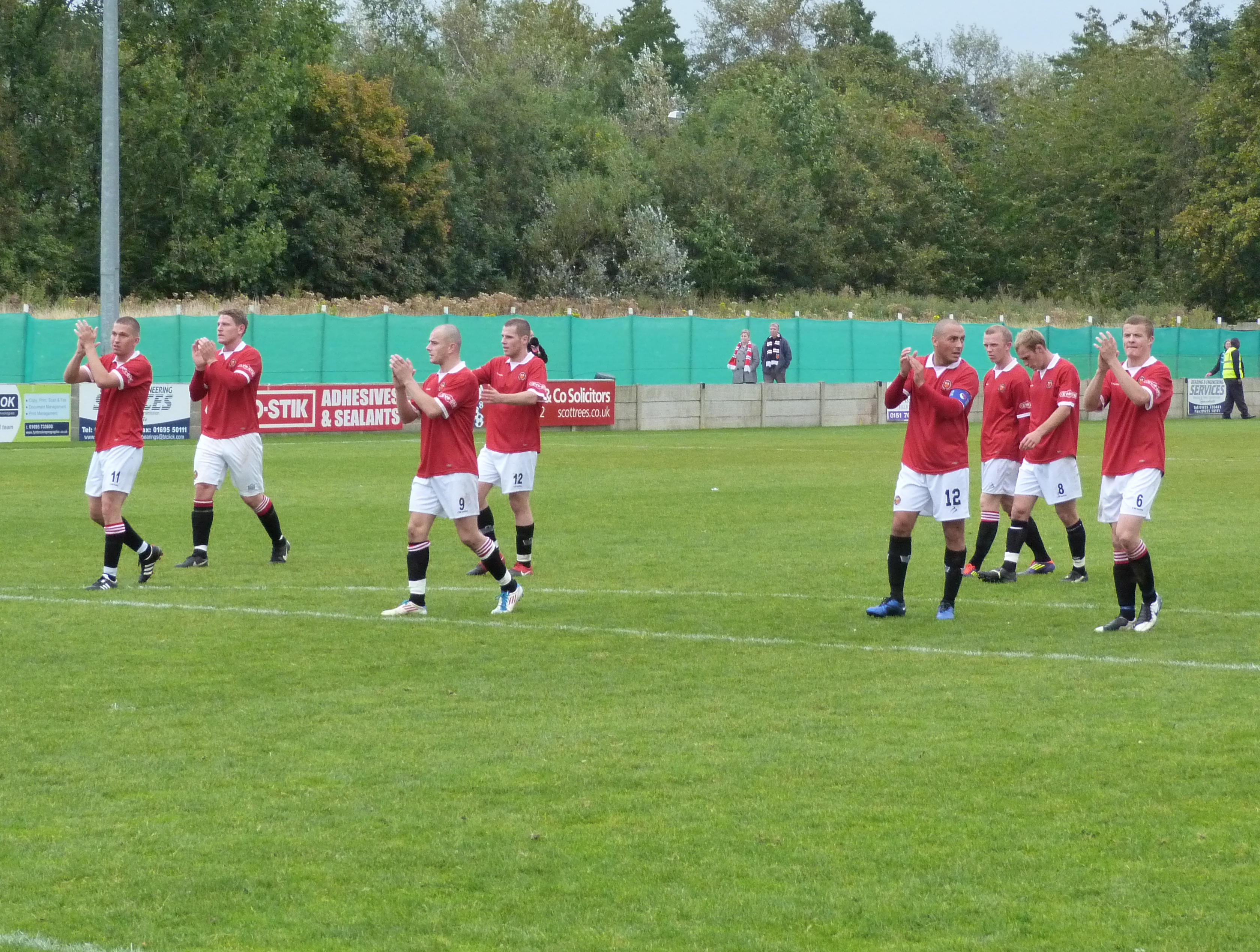 FC United players thank fans for their support after a game at Skelmersdale against Buscough FC on the 24 September 2011